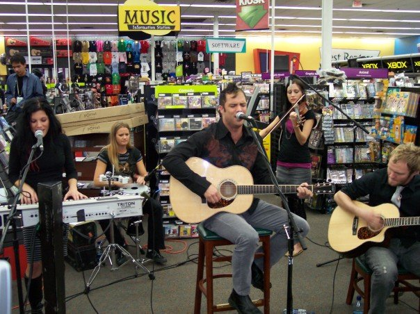 Christian rock band "Skillet" performing at a promotional acoustic show in a record store in Denton, Texas in 2006. Also featuring Nikki Rauwerda on violin.